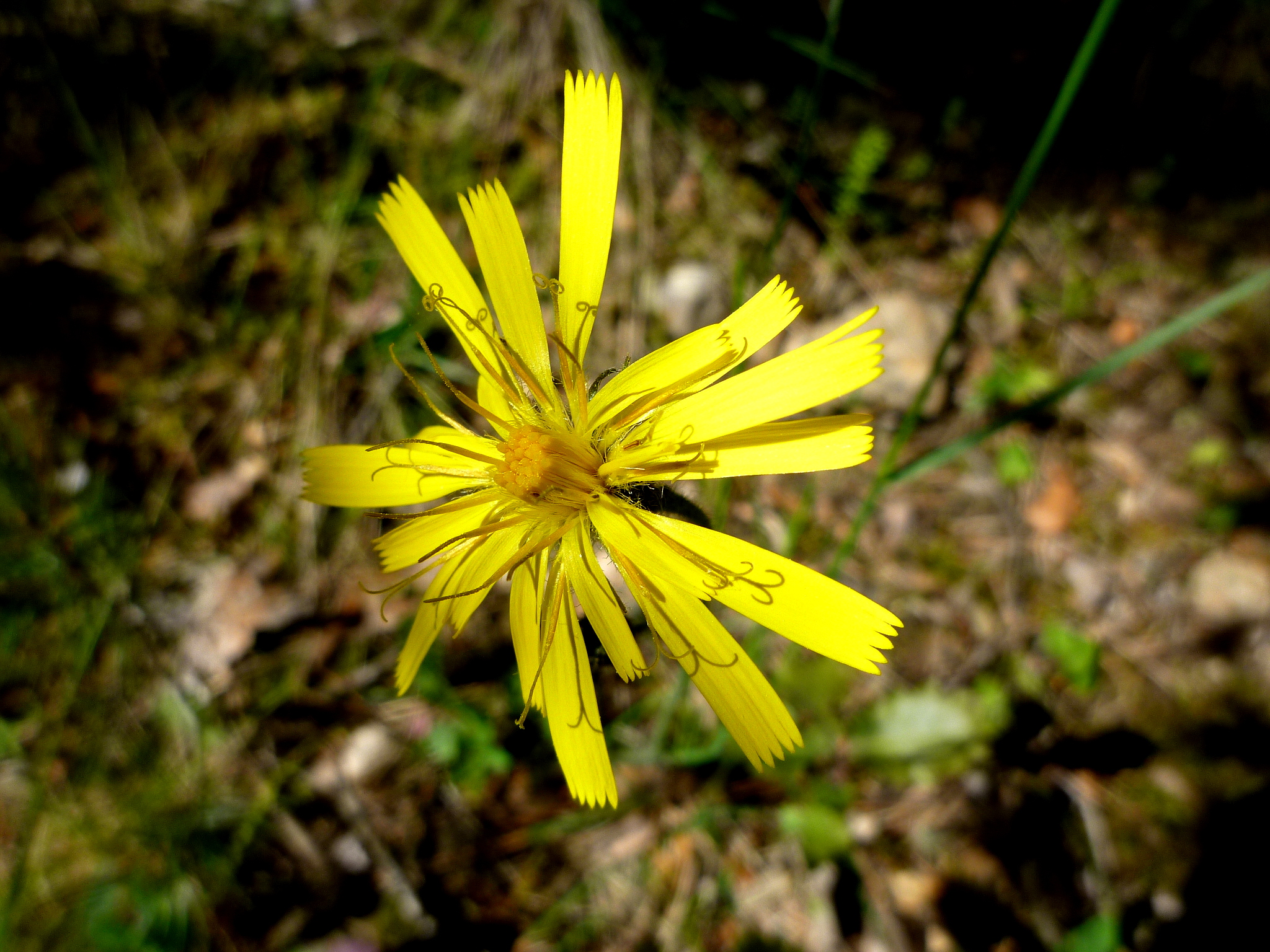 Picris hieracioides. In Guixers (Solsonès - Catalunya), to 950 m. altitude